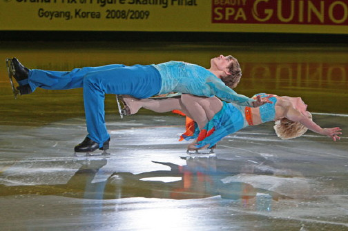 Madison Hubbell & Keiffer Hubbell (USA) during their exhibition at the 2008-2009 Junior Grand Prix Final.